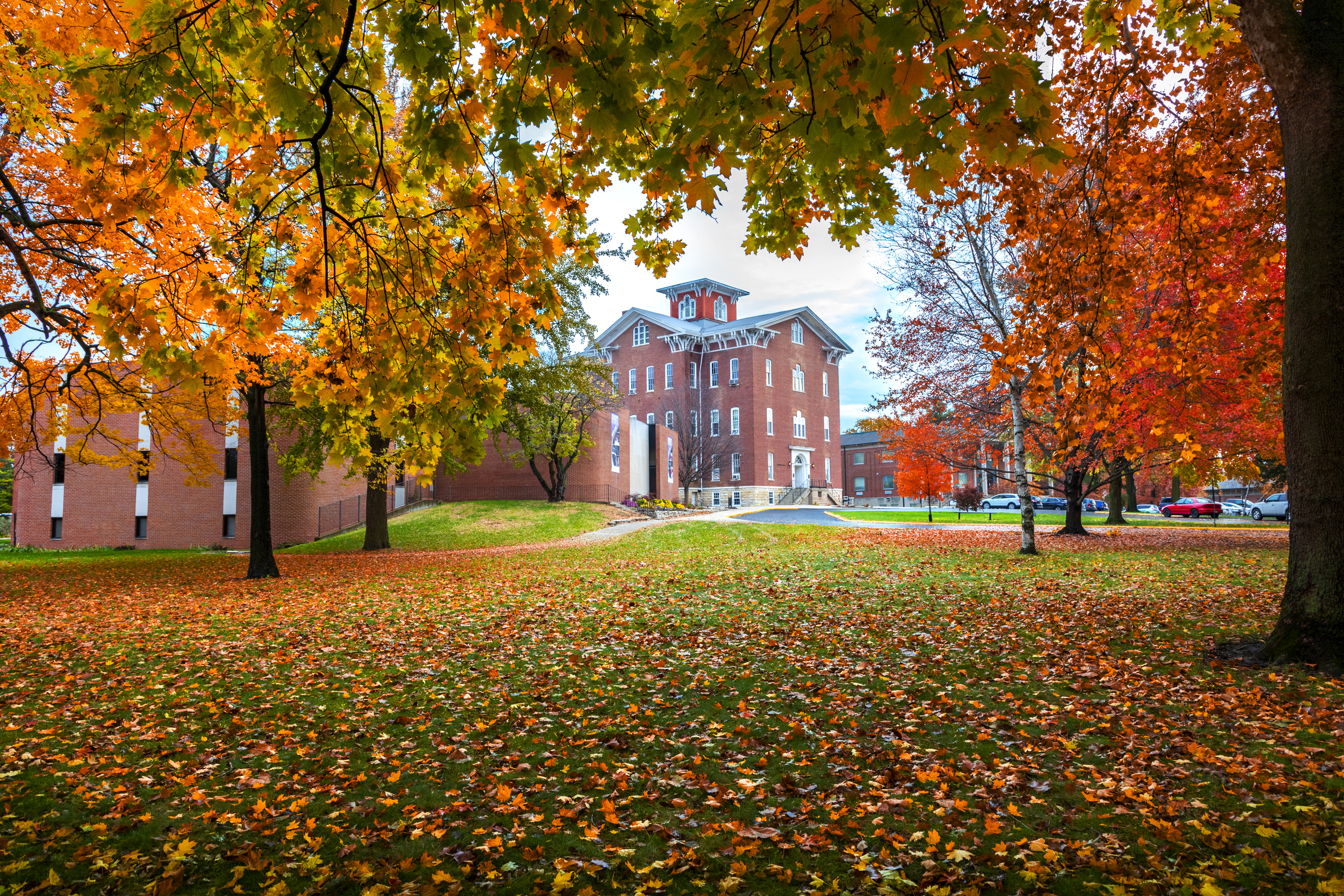 Fall at Lincoln College, Lincoln, Illinois, showing University Hall, the first building constructed on the Lincoln College Campus in the 1860s. Lincoln College is the only college named for Abraham Lincoln during his lifetime.